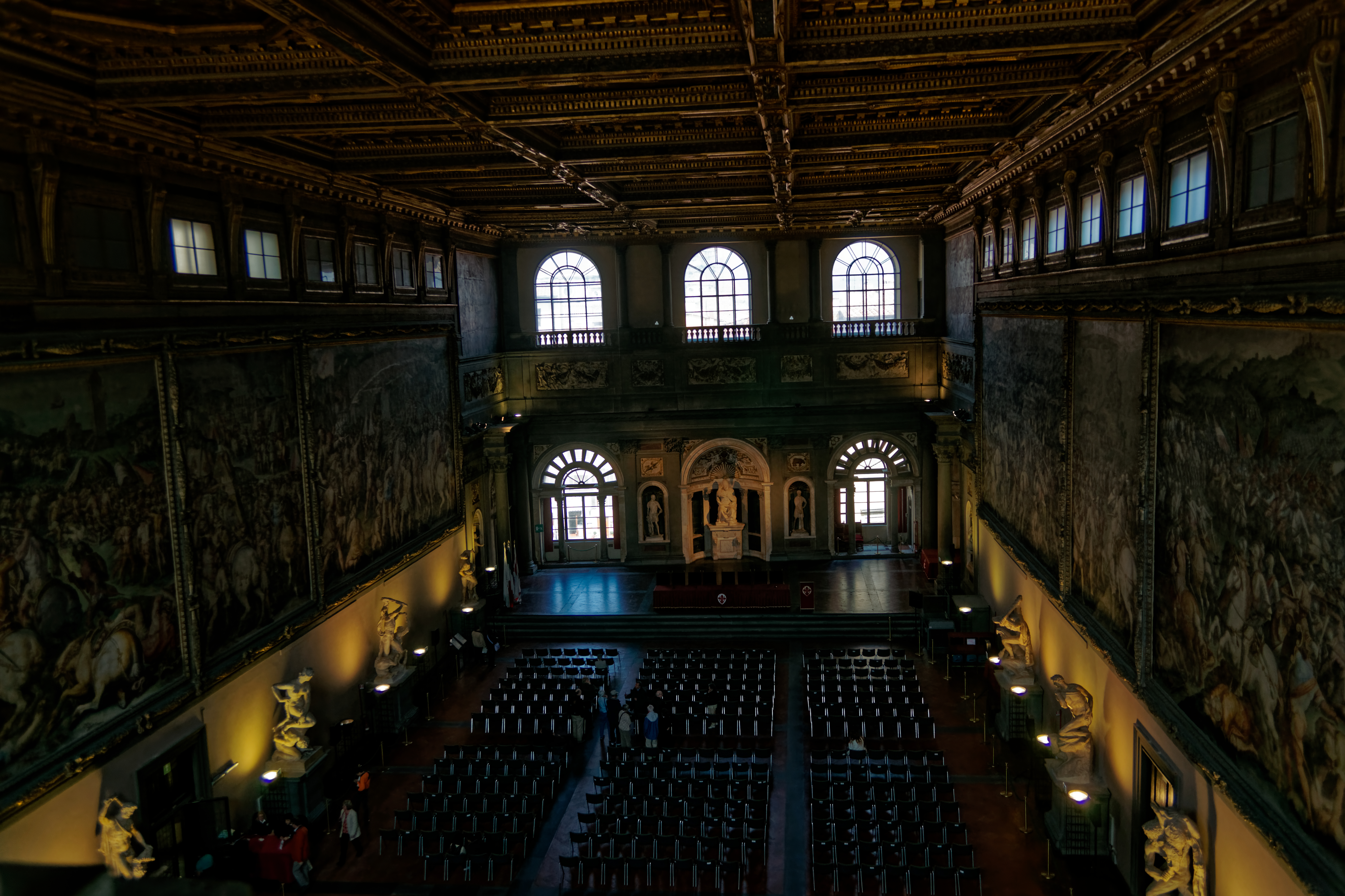 Firenze / Florence - Palazzo Vecchio - 2nd Floor - Balcony of Salone dei Cinquecento - Overview NNE (against strong light from opposite windows)